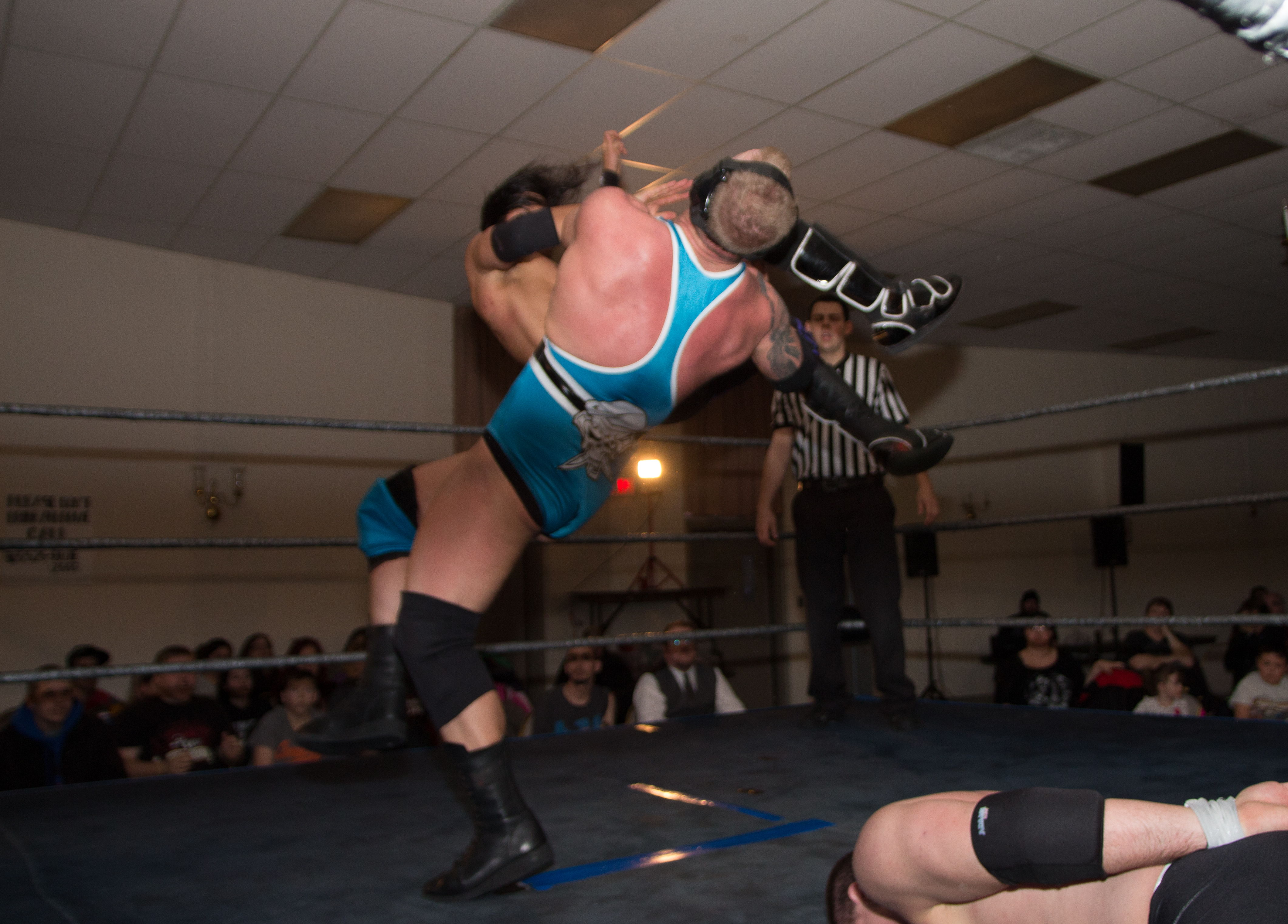 Trent Barreta hitting his Gobstopper (a running high knee) at Alpha-1 Wrestling's Watch the Throne 2 show